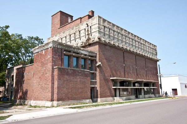 Full view of the Frank Lloyd Wright A.D. German Warehouse in Richland Center, Wisconsin. Wright was born in Richland Center.